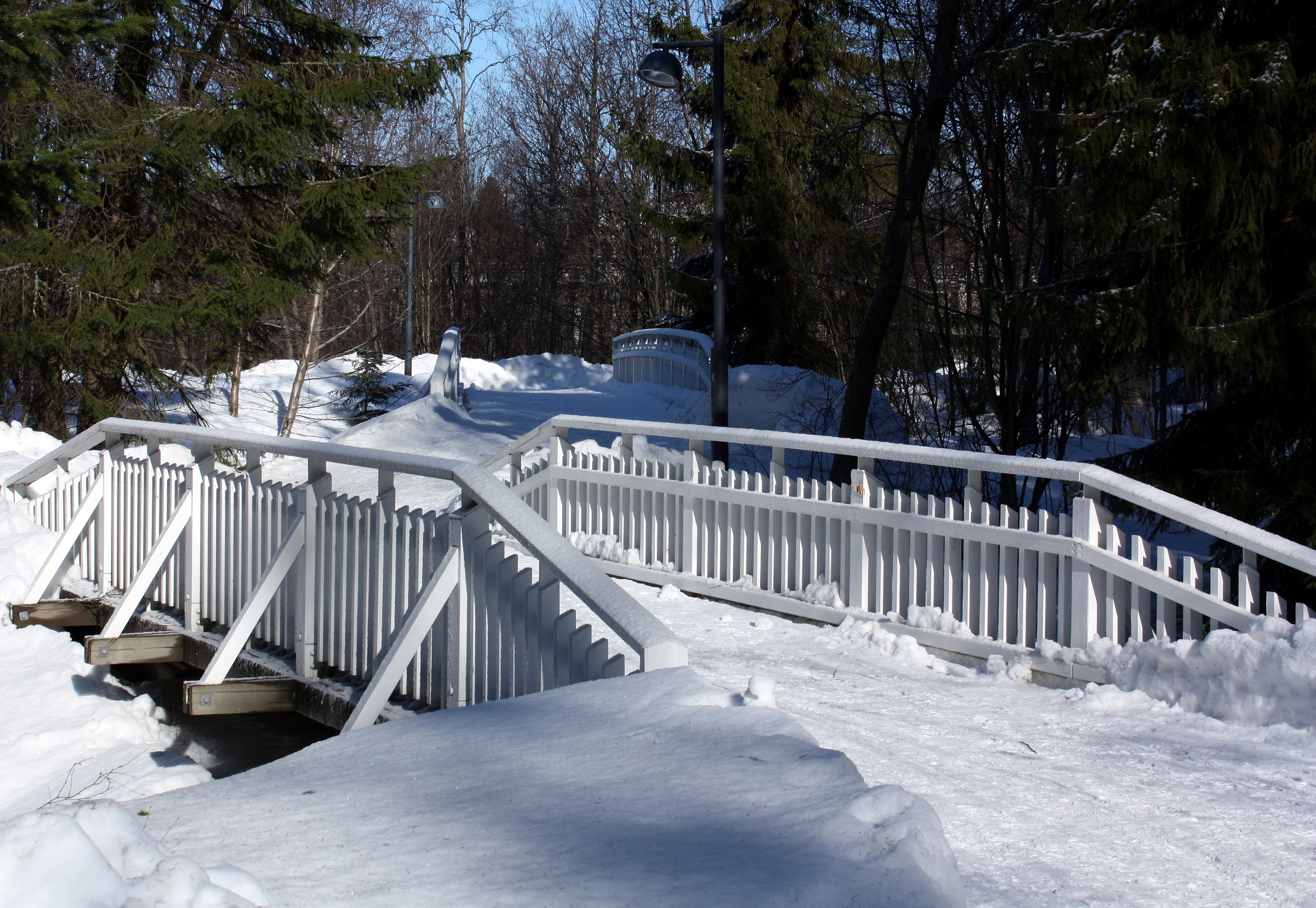 White wooden bridges in Hupisaaret park in Oulu.